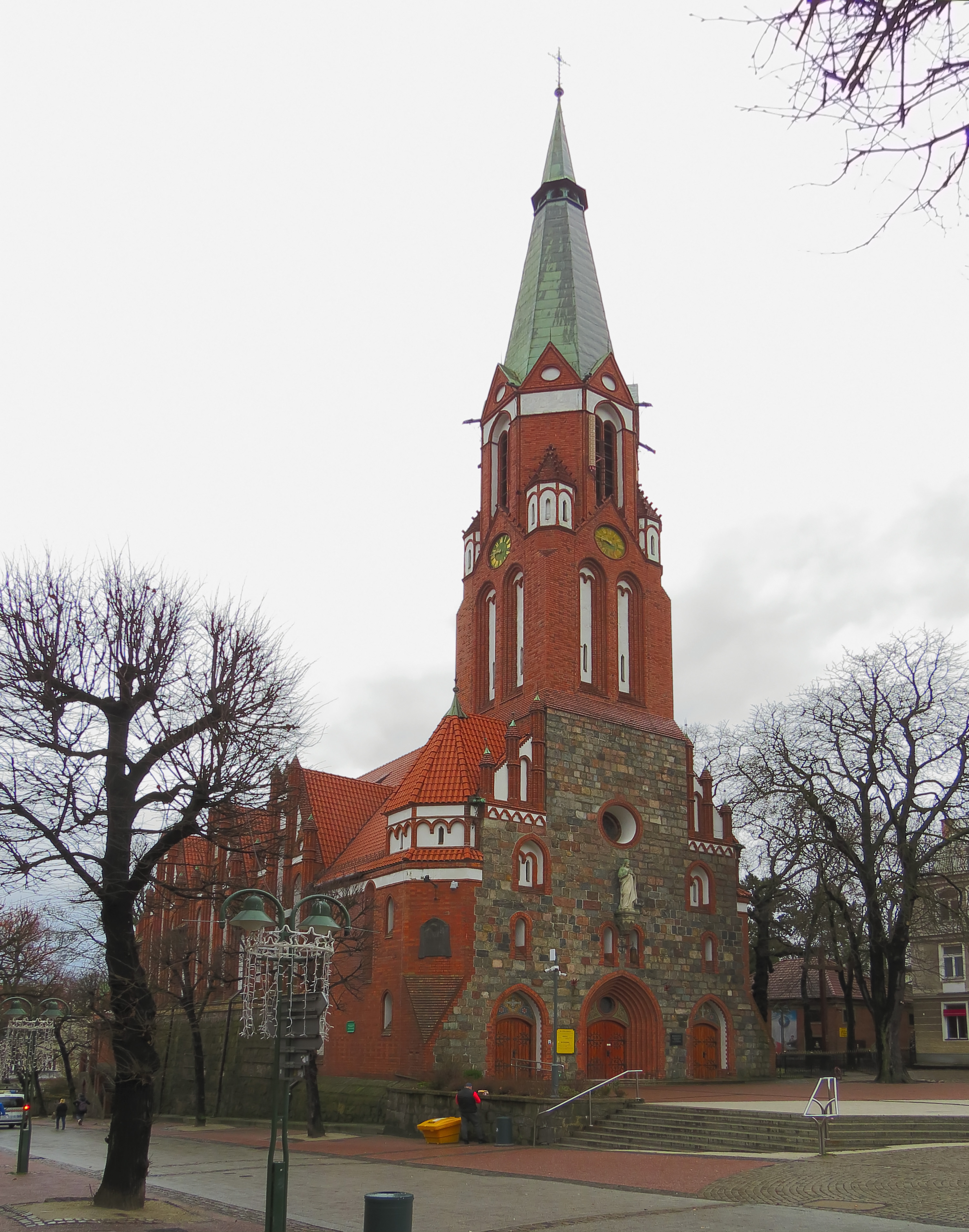 Saint George church in Sopot, Poland